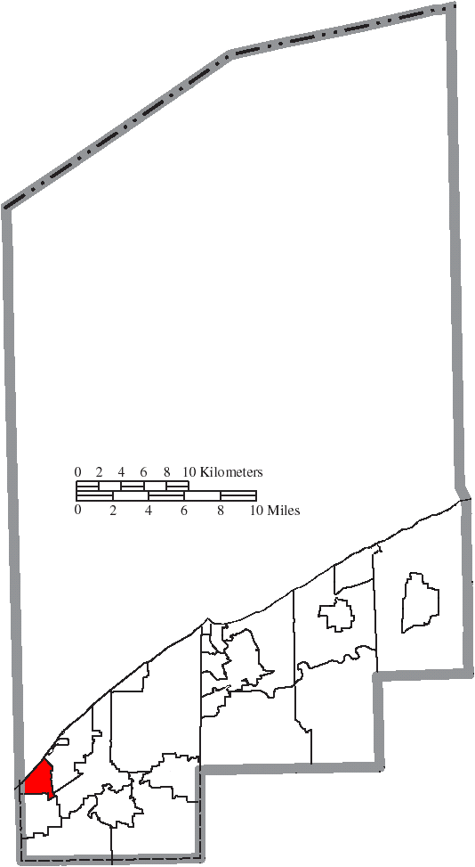 Map of the municipal and township boundaries of Lake County, Ohio, United States, as of the 2000 census, with the location of the city of Willowick highlighted. Township borders are shown only in unincorporated areas in order to differentiate incorporated and unincorporated areas more clearly.